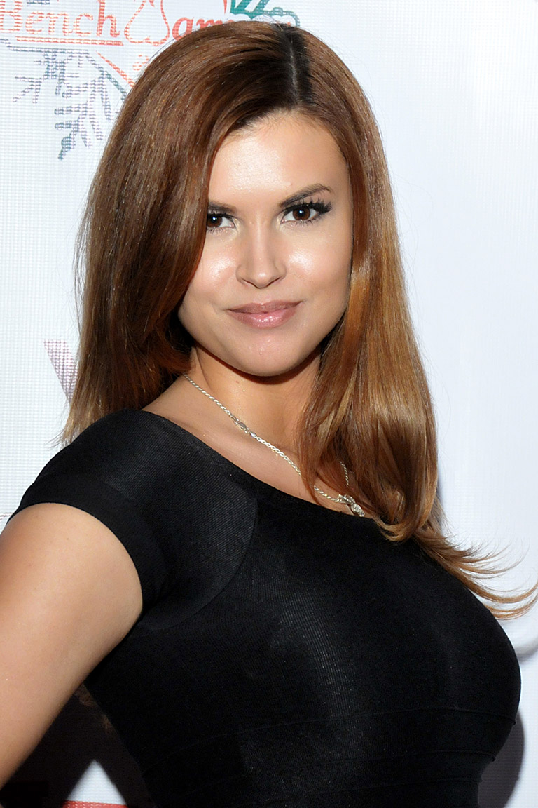 Amelia Talon, Hollywood California on December 11, 2014 - Photo by Glenn Francis of